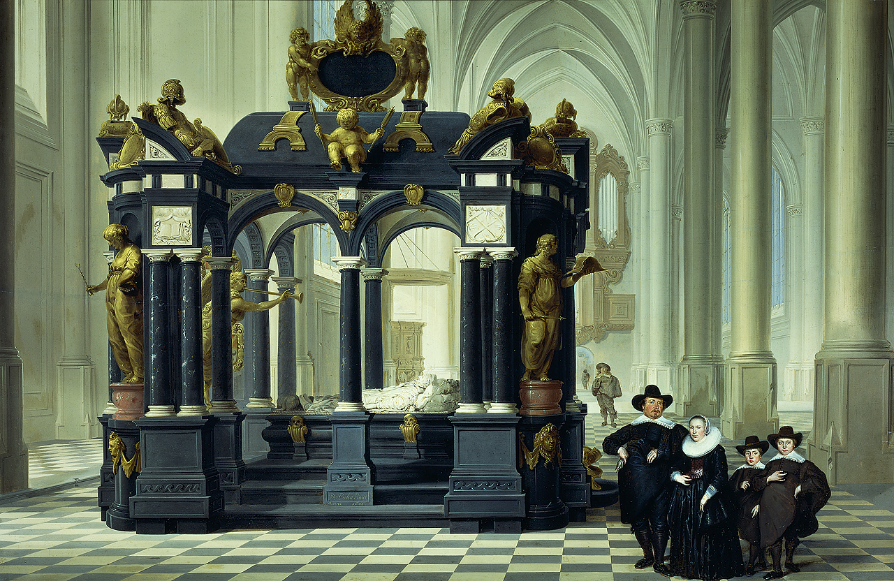 Portrait of an unknown family standing beside the tomb of William the Silent in the Nieuwe Kerk in Delft.